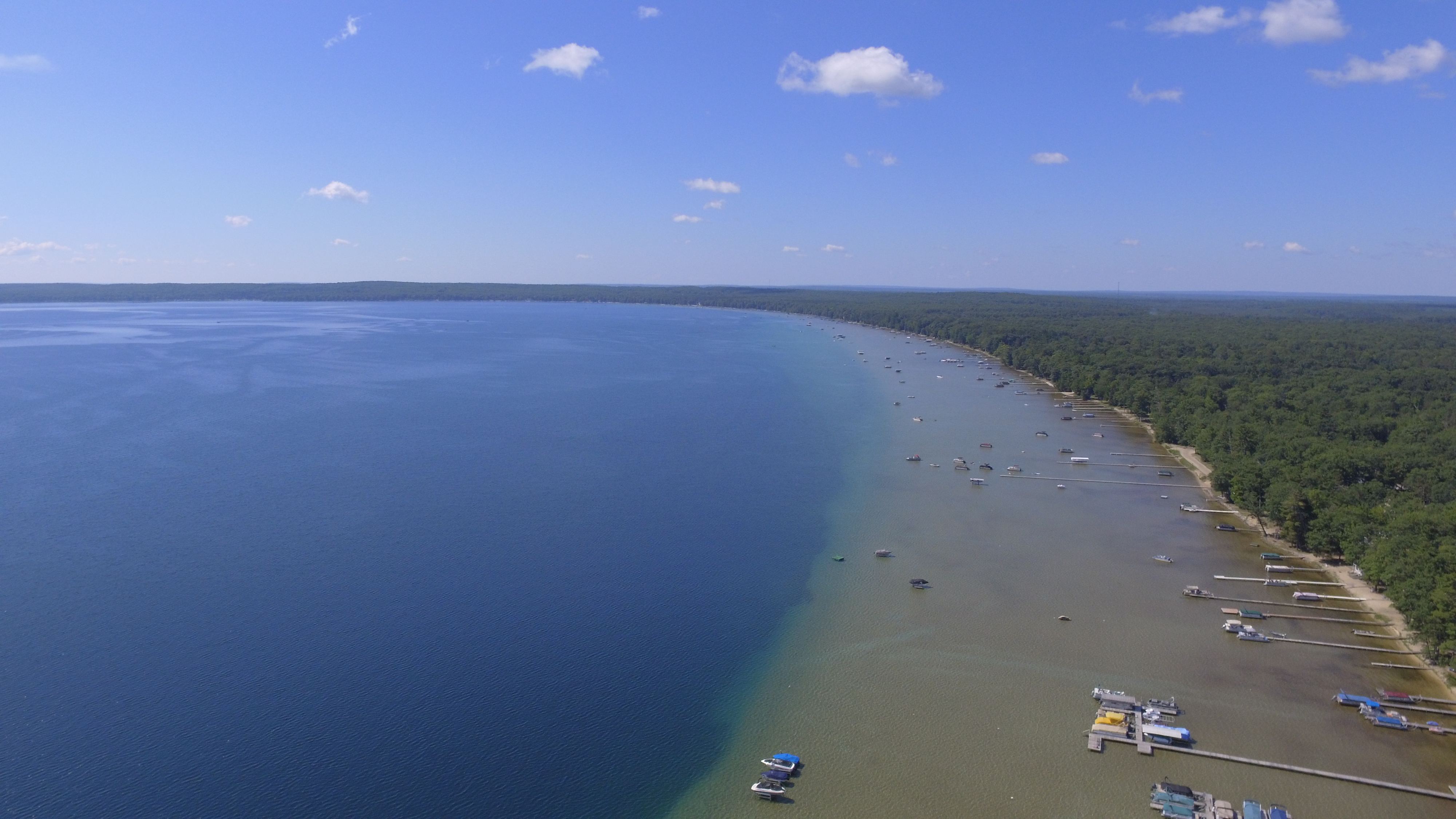 Aerial Footage of Higgins Lake, MI.